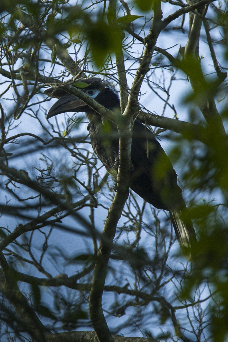 Black-casqued Hornbill - Uganda_H8O5782